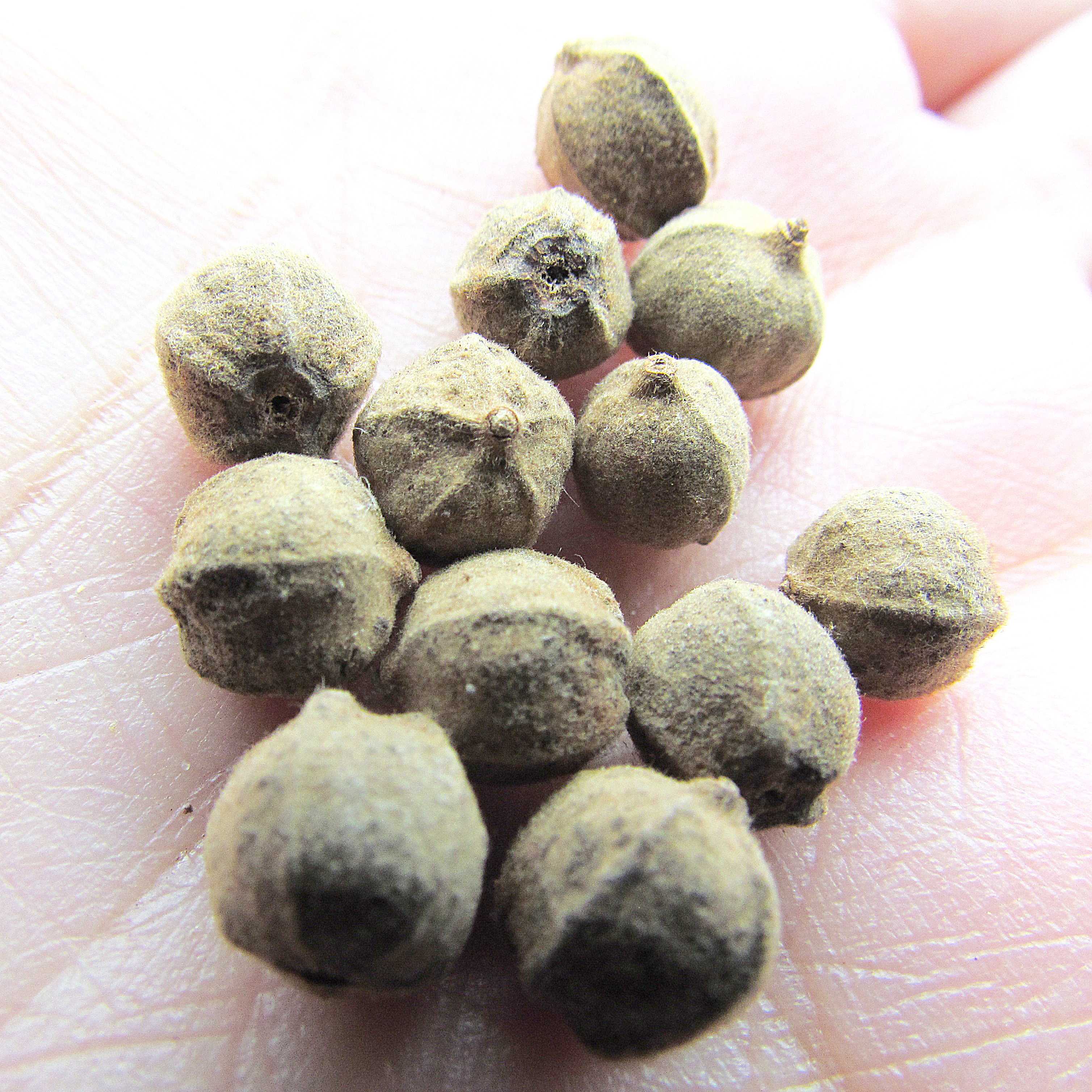 Tilia cordata fruits